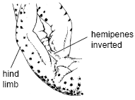 Standard Event System character depiction